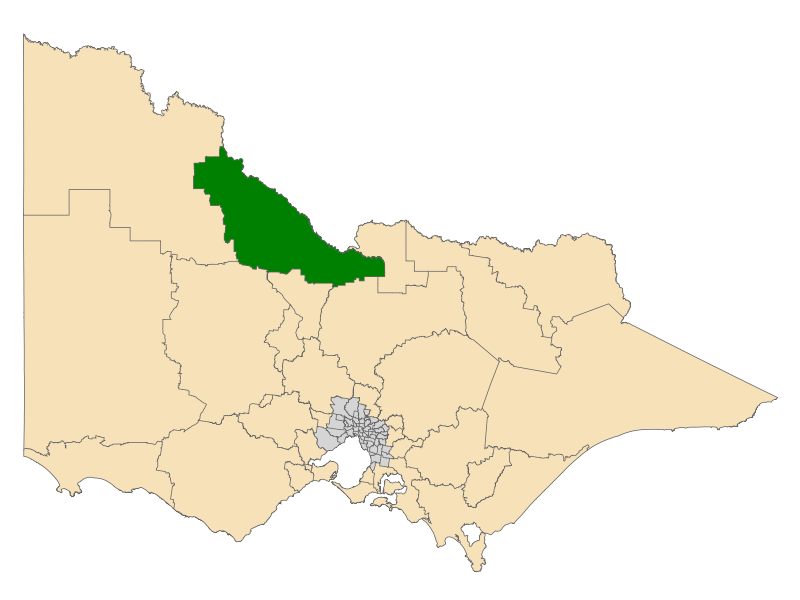 Location of the Electoral District of Murray Plains (dark green) in the state of Victoria, Australia. These boundaries were used for the Victorian state election on 29 November 2014.